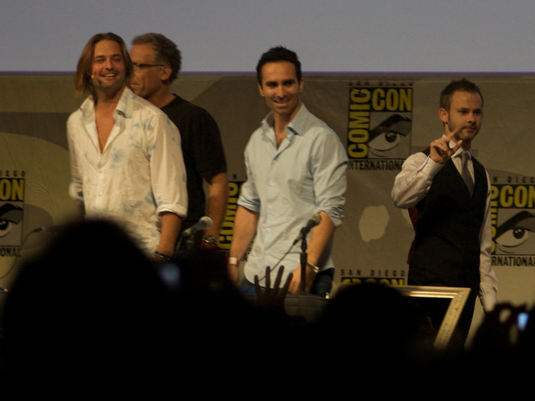 from right to left — Dominic Monaghan (Charlie), Nestor Carbonell (Richard Alpert), Josh Holloway (Sawyer) on Comic Con 2009